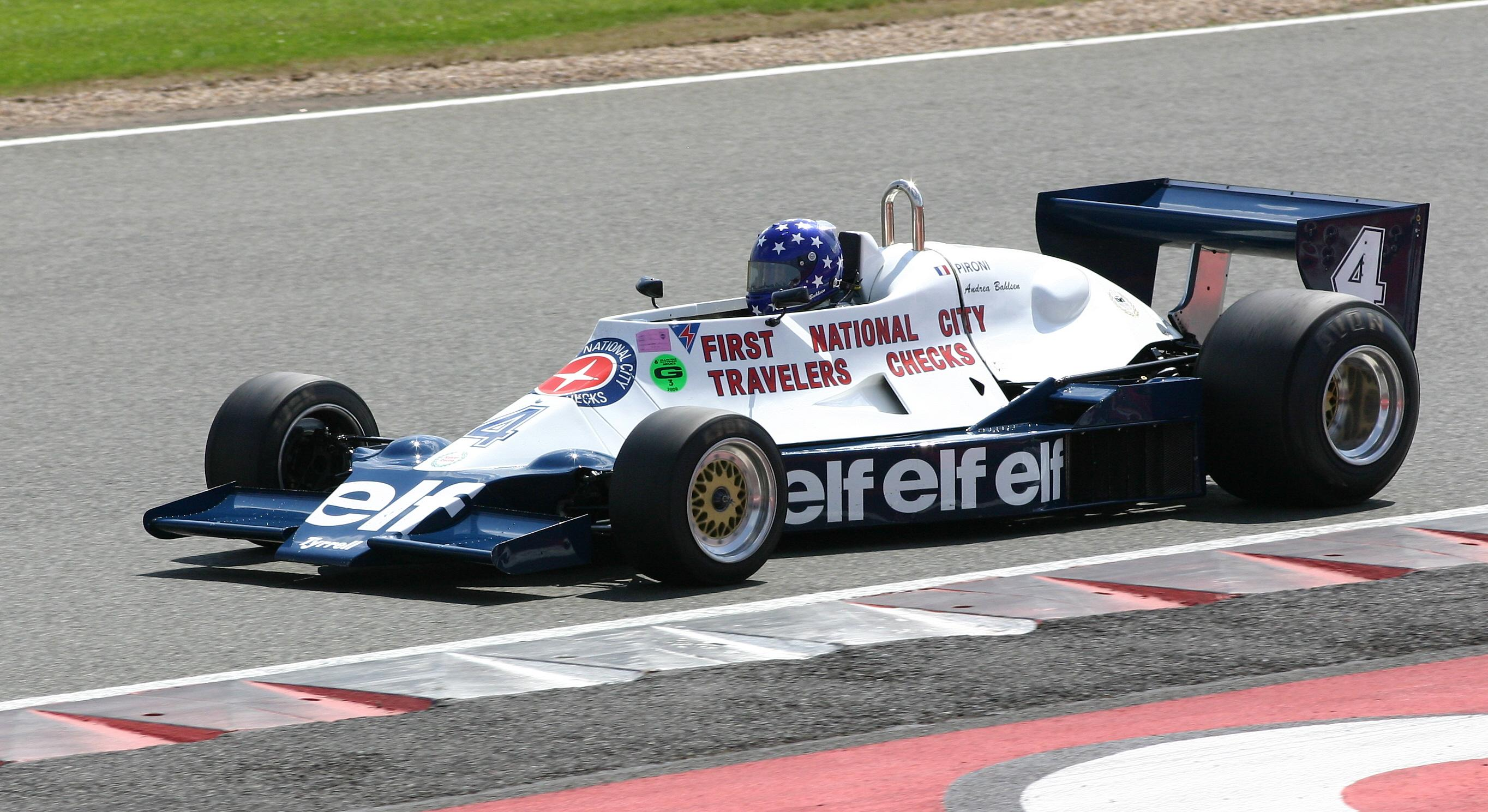 The Tyrrell 008 at the 2008 Silverstone Classic race meeting.